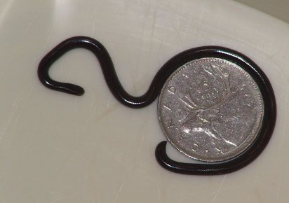 Photograph of a common blind snake, family Typhlopidae, from Singapore. (Set beside a coin 24 mm in diameter for indication of relative size.)